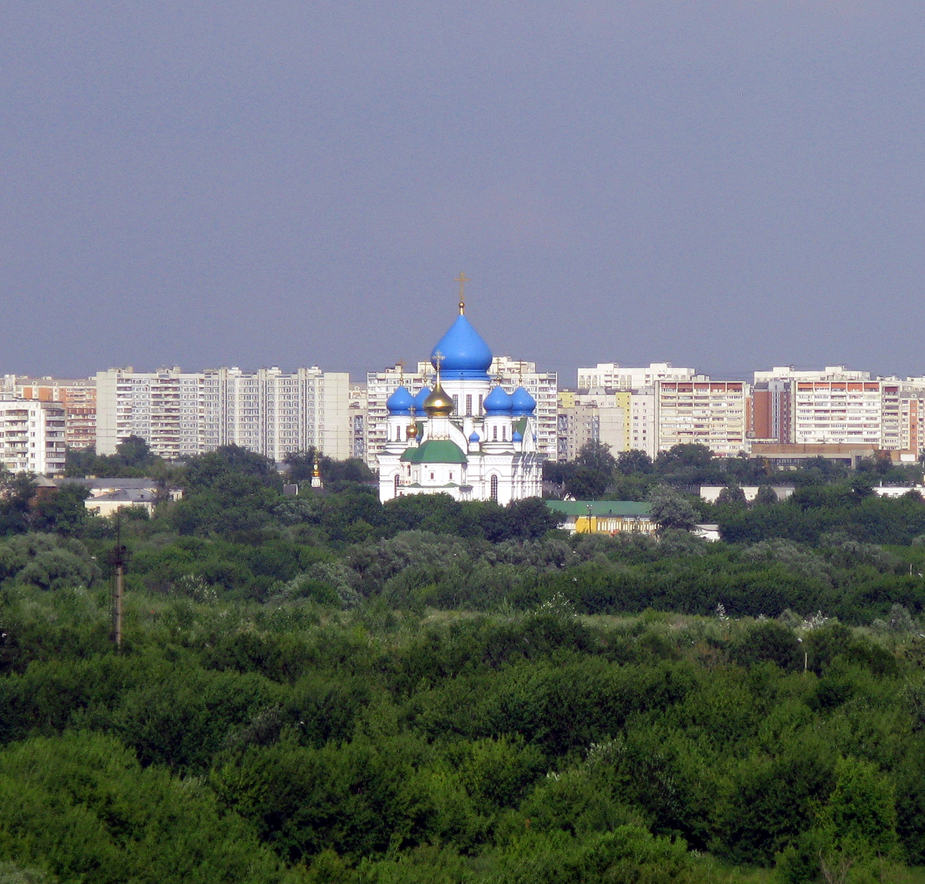 Nikolo-Perervinsky Monastery (Moscow).